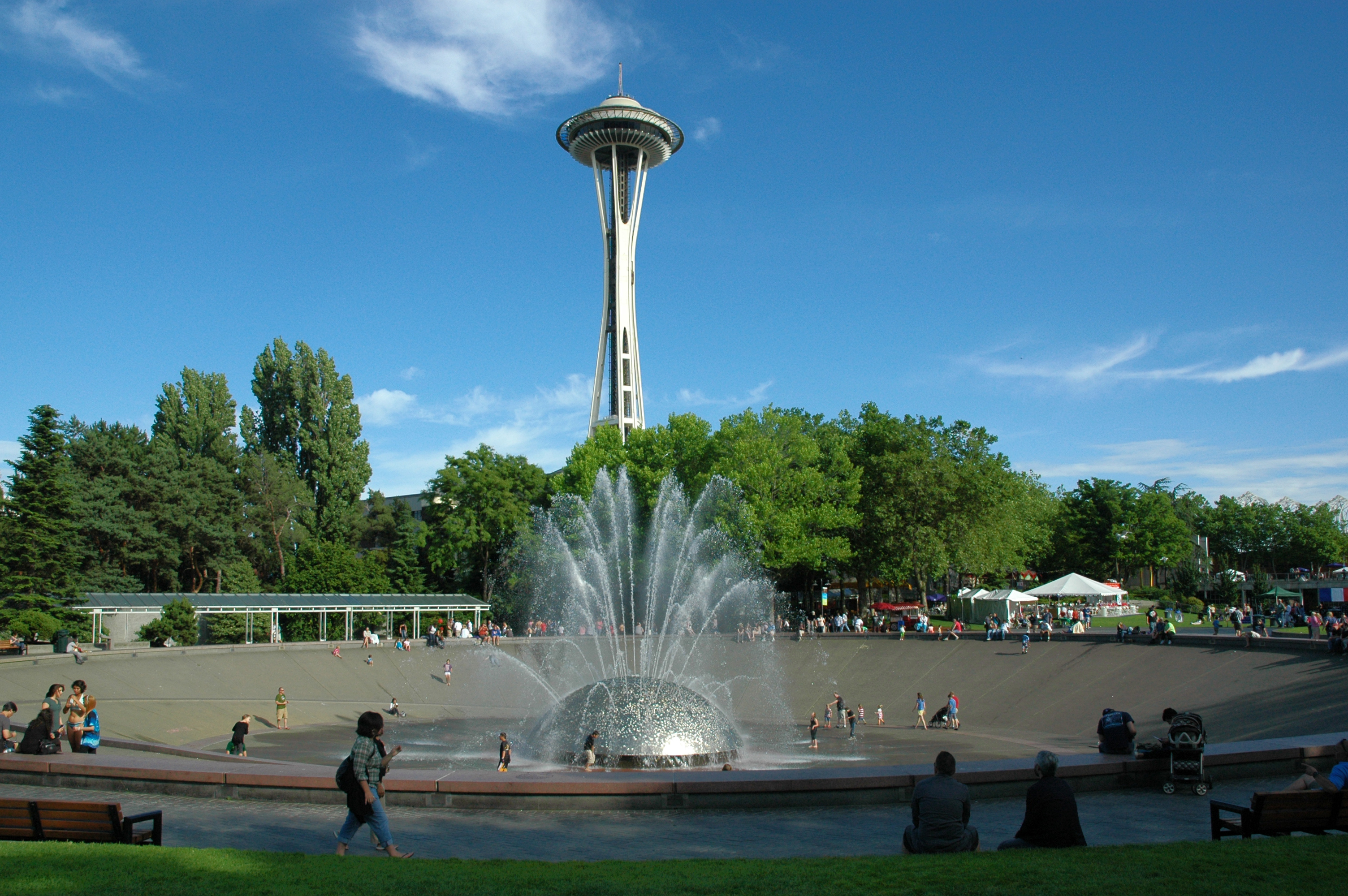 The International Fountain and the Space Needle at the Seattle Center, Seattle, Washington.